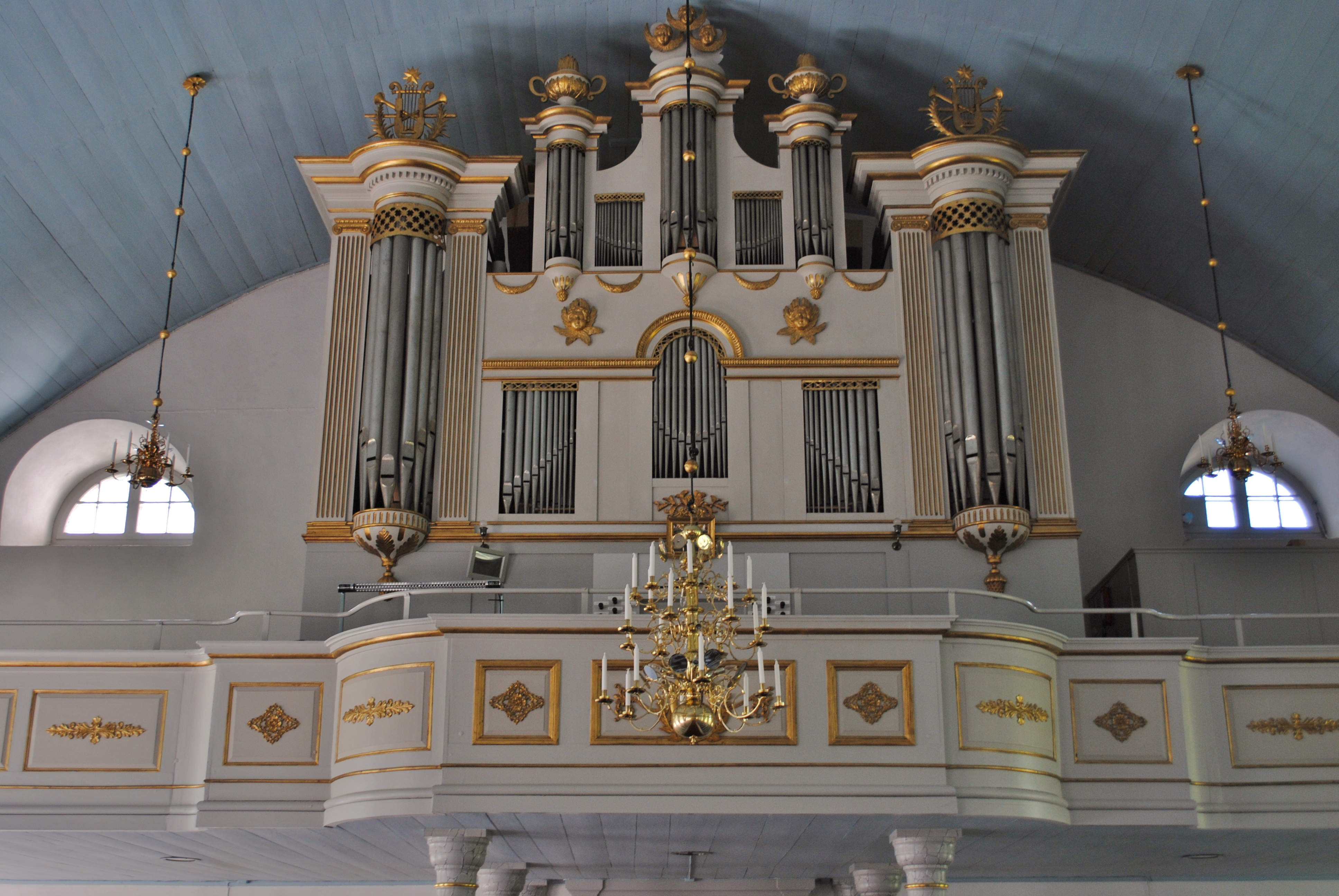 Slätthög Church.Organ